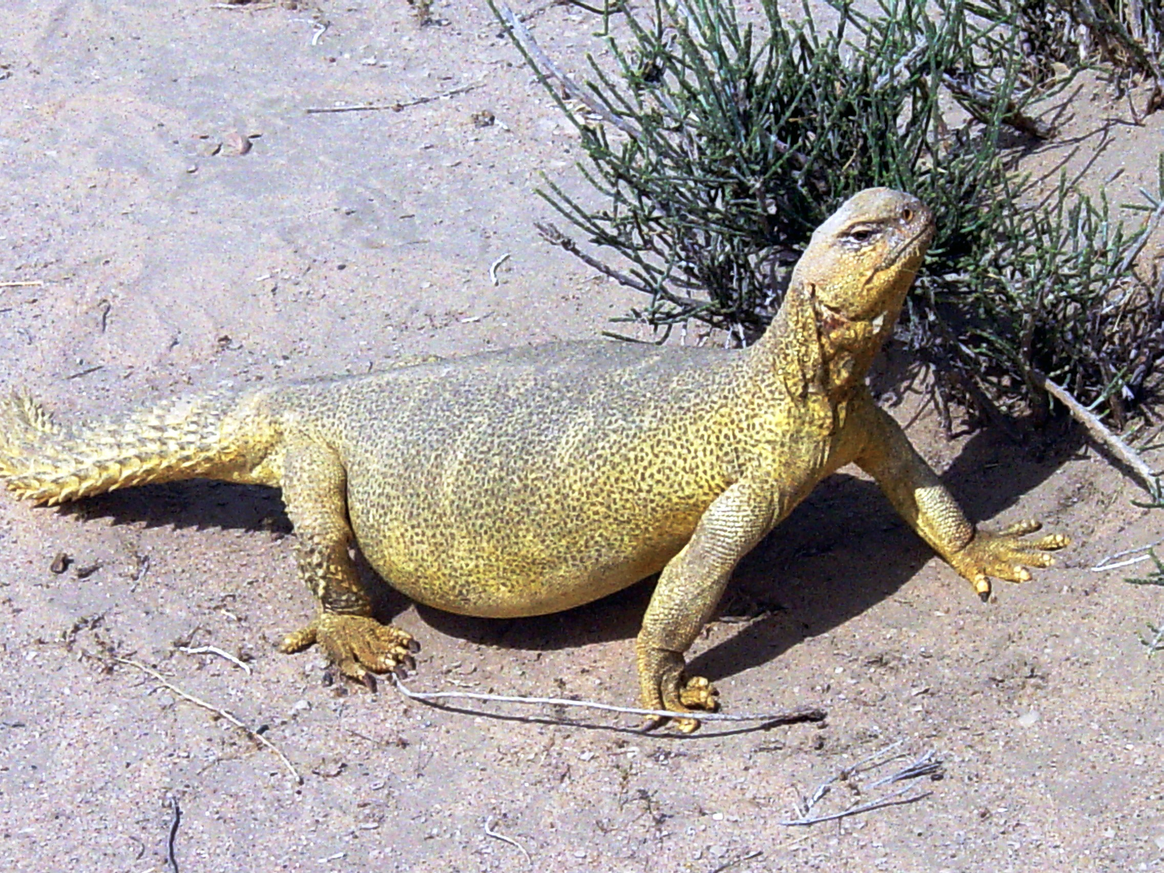 A Spiny-Tailed (Uromastyx acanthinura) Agamid Lizard poses for the camera somewhere in the Kuwaiti desert.